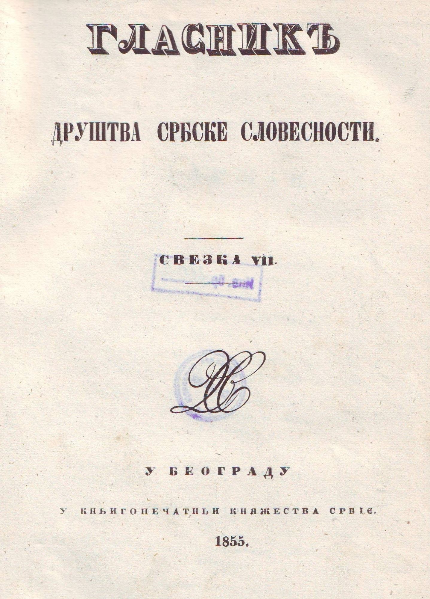 The cover of the Glasnik Društva srpske slovesnosti (1855). Srpski (latinica): Naslovna strana Glasnika Društva srpske slovesnosti (1855).